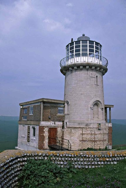 Belle Tout Lighthouse. A few years ago the Belle Tout Lighthouse, which is now used as a private house, was moved 200 yards from the cliff edge to its present position. In the 1970s it was used in the TV drama "The Lives and Loves of a She Devil" staring Patricia Hodge. At that time it was in its former position.